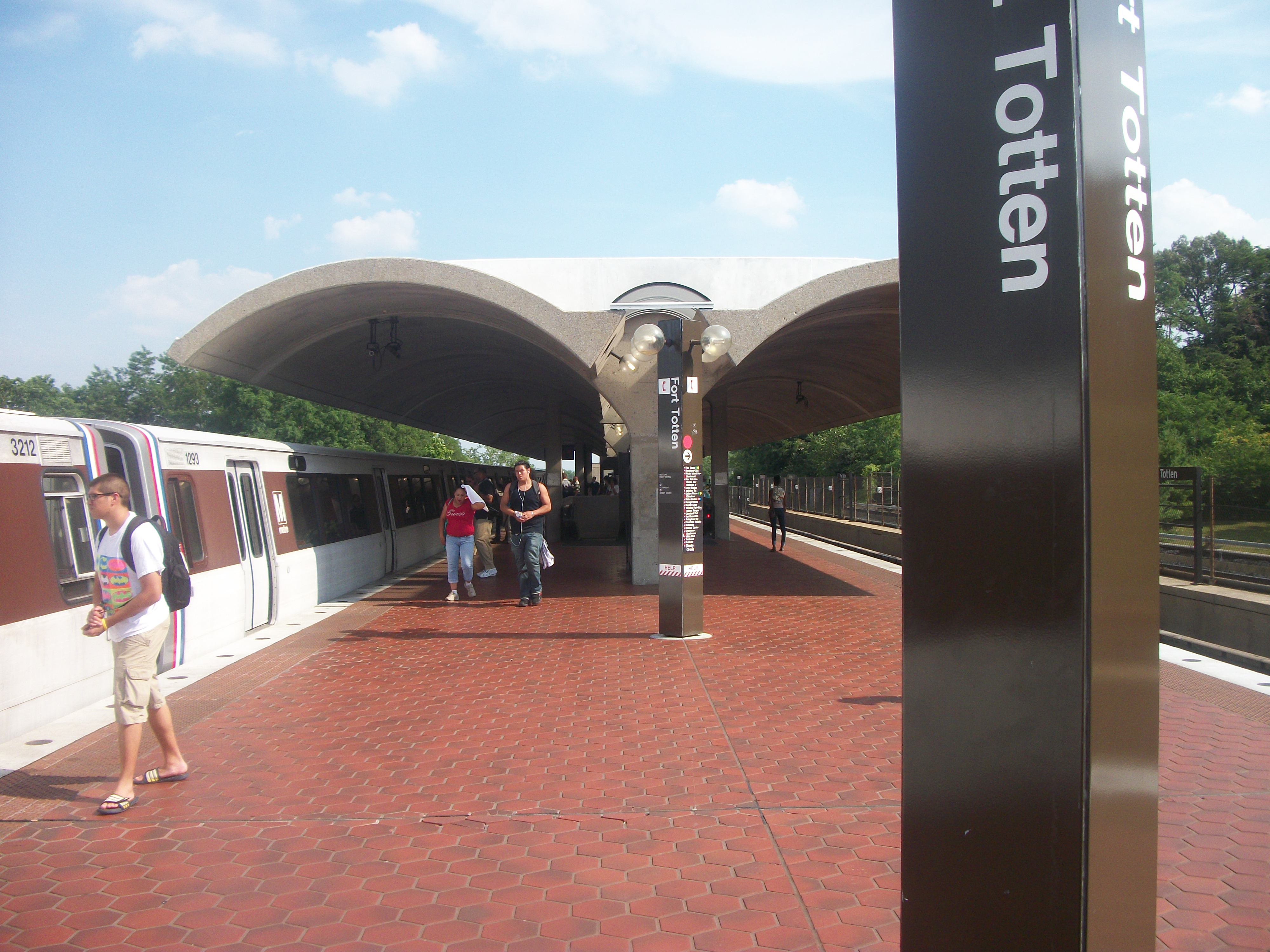 Fort Totten Station On The Upper Level